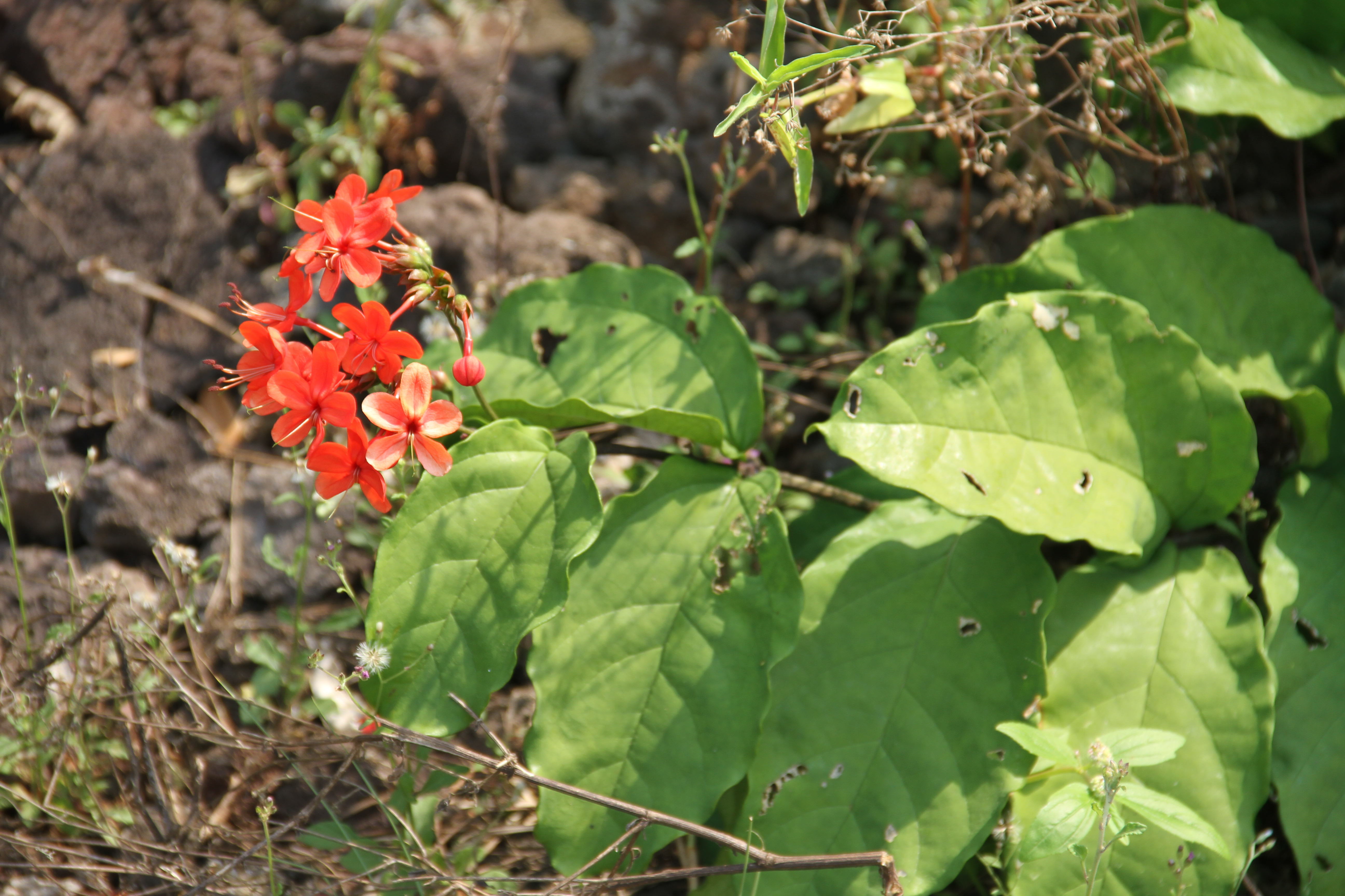 Clerodendrum splendens, near Sipopo, Bioko The making of this document was supported by the Community-Budget of Wikimedia Germany.